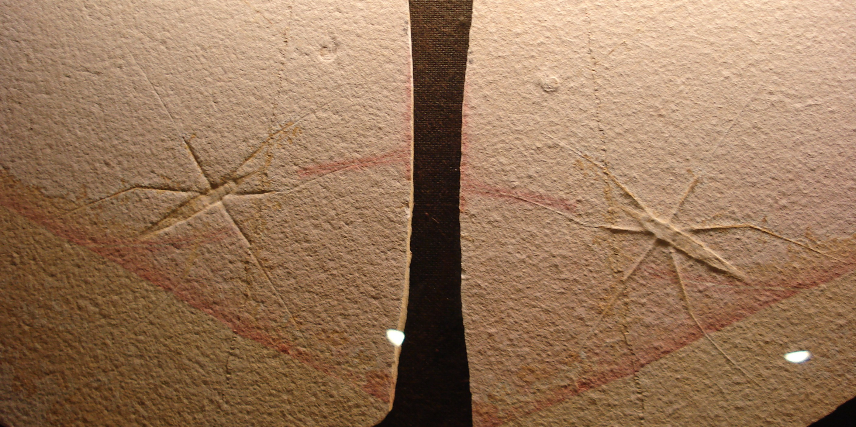 fossil of Chresmoda obscura